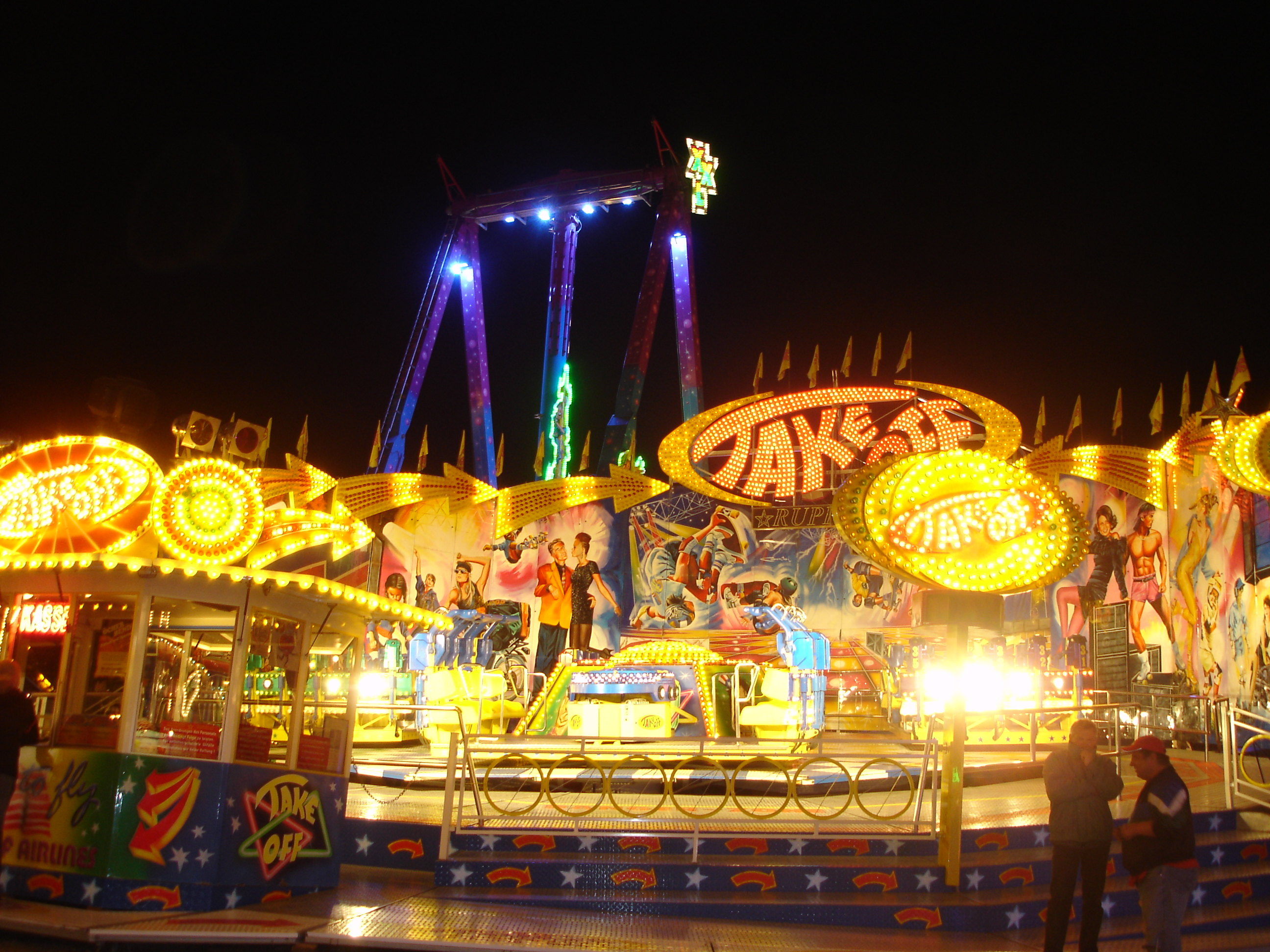 The ride "Take Off" during the Öcher Bend festival at Aachen, Germany.